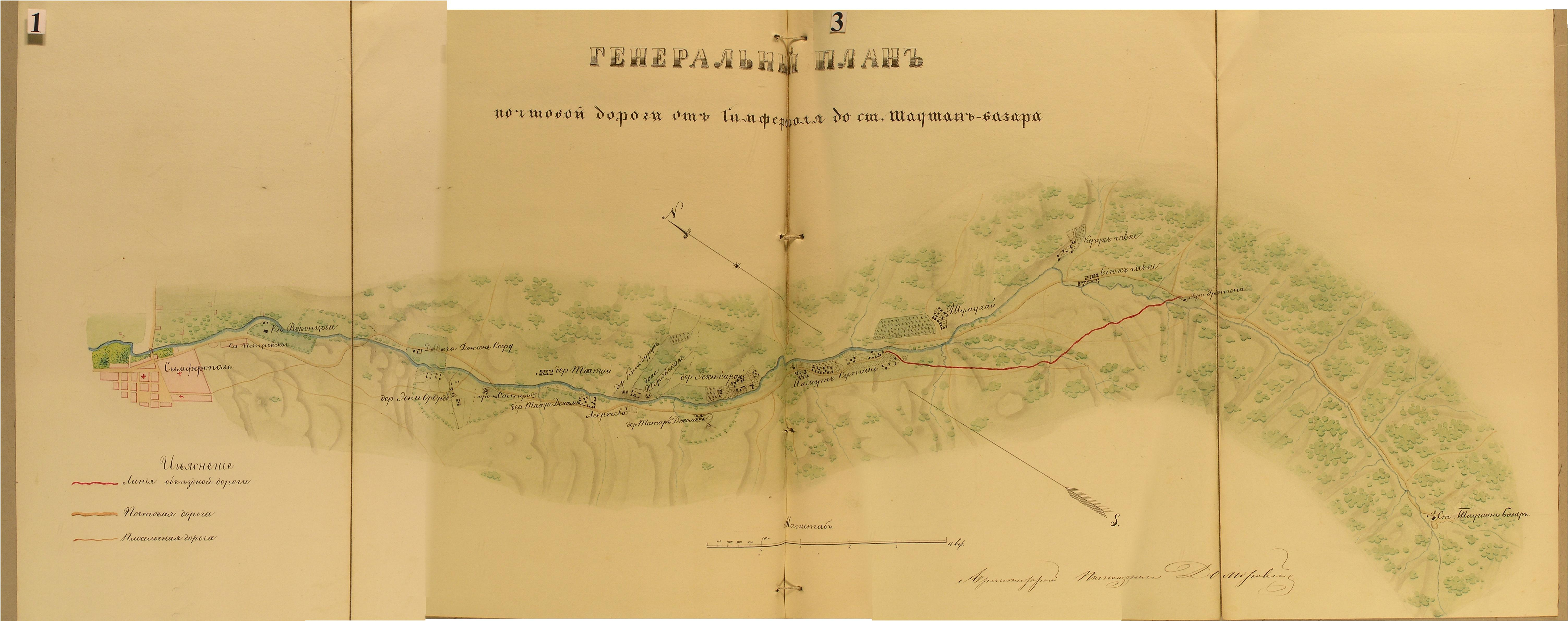 The plan for correction of the Cause of a bypass road Simferopol - Taushan Bazaar. 1865, Crimea